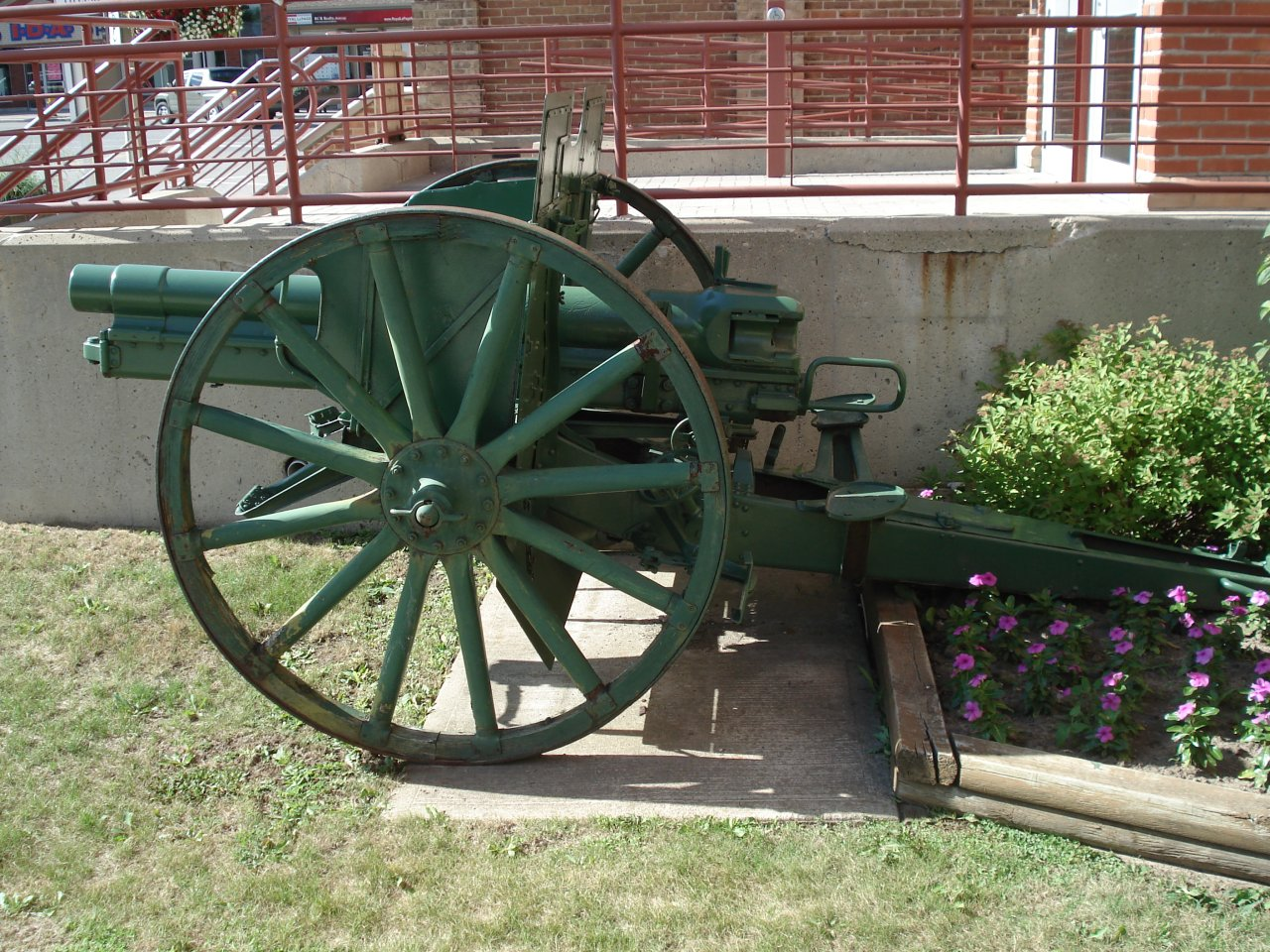 7.7 cm FK 96 n.A. displayed as monument in Shelburne, Ontario. Gun marked with years 1897 and 1905.